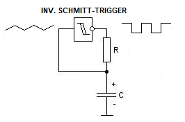 astable multivibrator using a schmitt trigger gate (e.g. 1/6 CD40106)